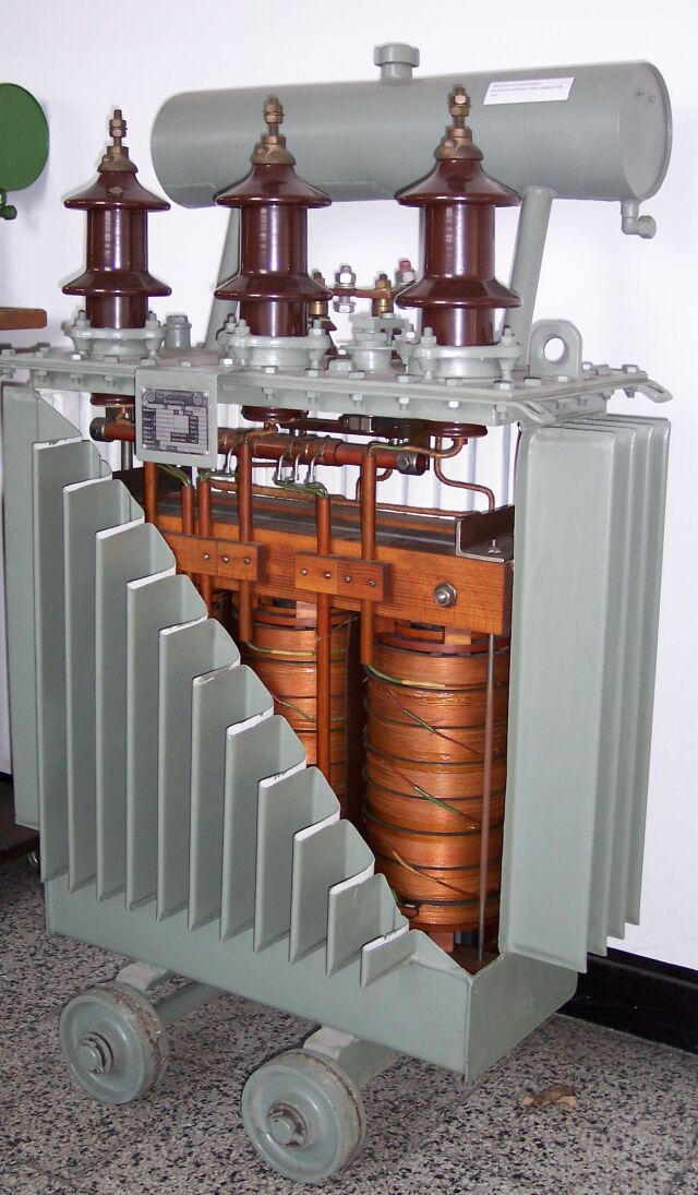 Three-Phase, Medium-Voltage Transformer, cut-away view.